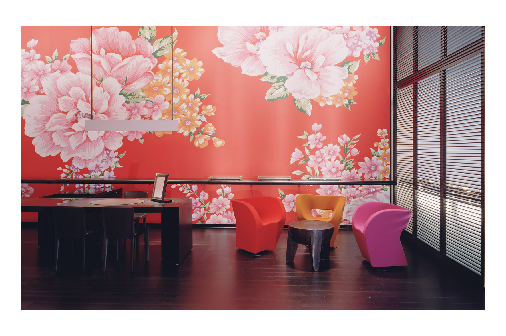 Pomellato Boutique San pietro all'Orto Milano